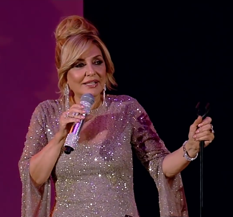 Googoosh singing in concert at the Hollywood Bowl venue in Los Angeles, California, in 2018